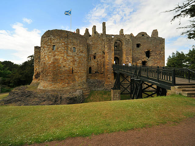 Dirleton Castle The 14th century gatehouse was built by the Halliburtons. The round tower to the left was built in the 13th century by the de Vaux family. The castle is now in the care of Historic Scotland.